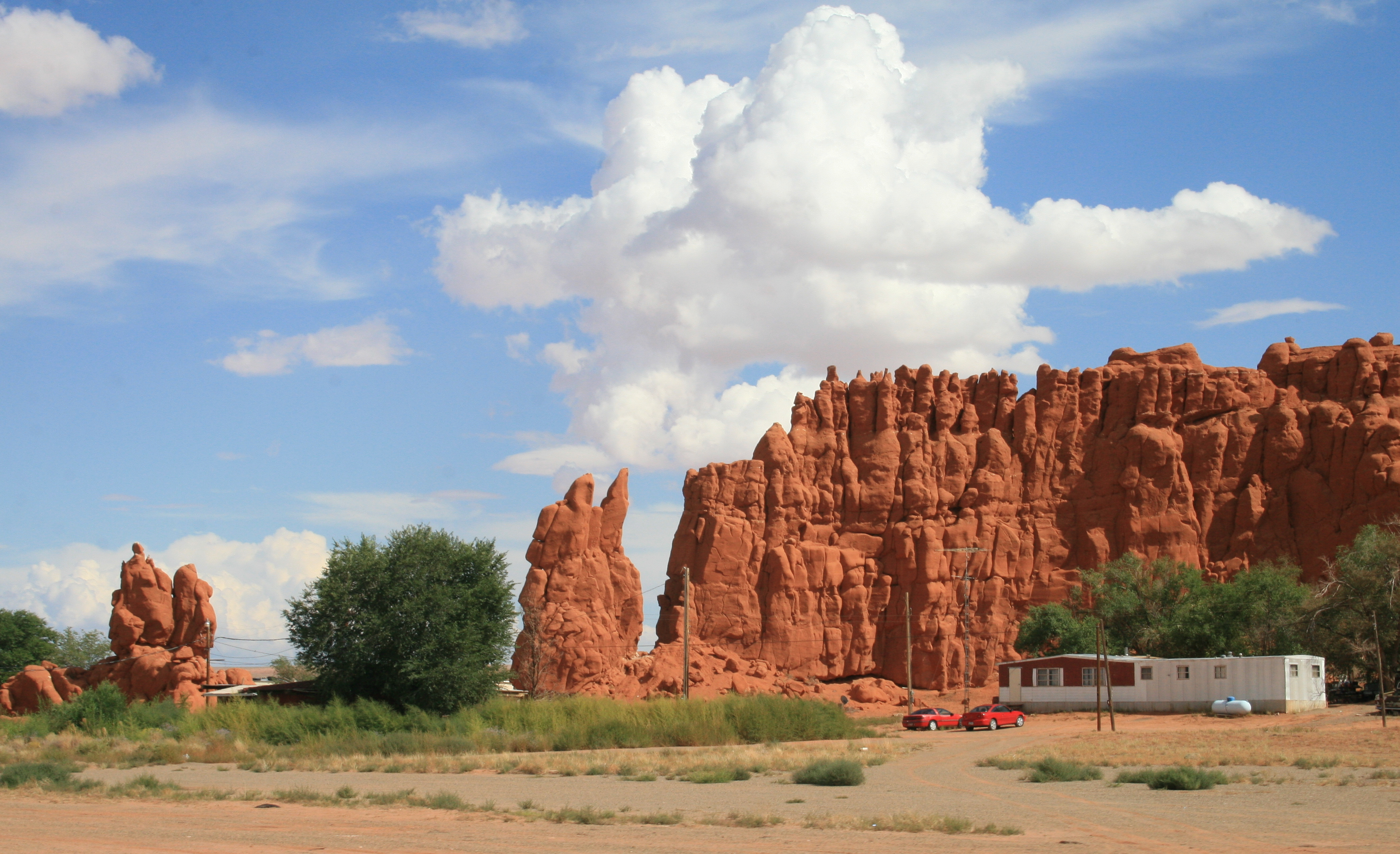 House in front of cliffs at Baby Rocks, Navajo County, Arizona, as seen from the U.S. Route 160, looking south.